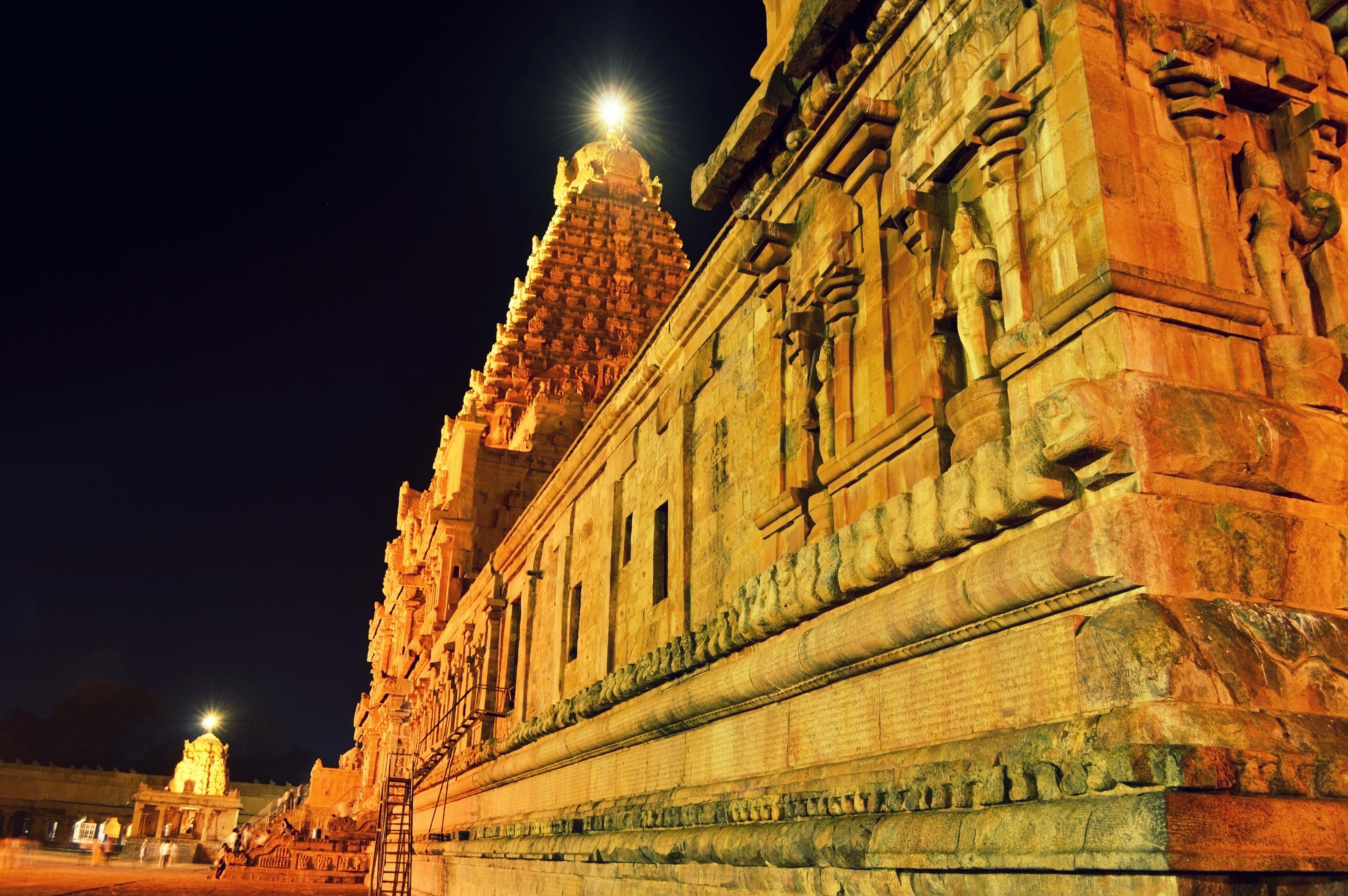 1000 year old temple glittering in the night.